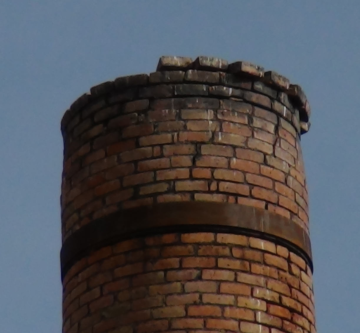 Pathologies of industrial chimneys